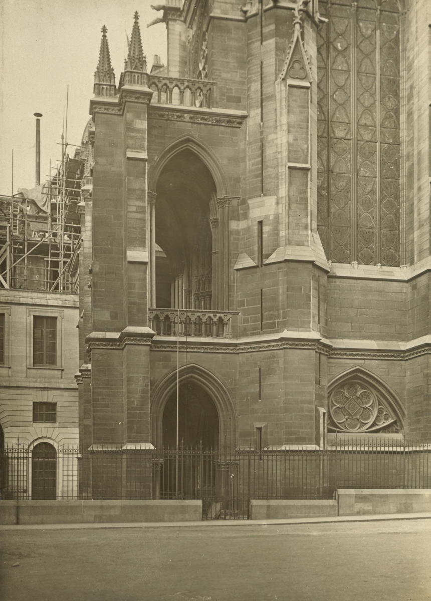 St. Chapelle, Paris, France, 1903. [St. Chapelle. Paris; [exterior view]. Brooklyn Museum Archives, Goodyear Archival Collection (S03_06_01_003 image 899). Help us map this image by using Suggestify to suggest a location for it.